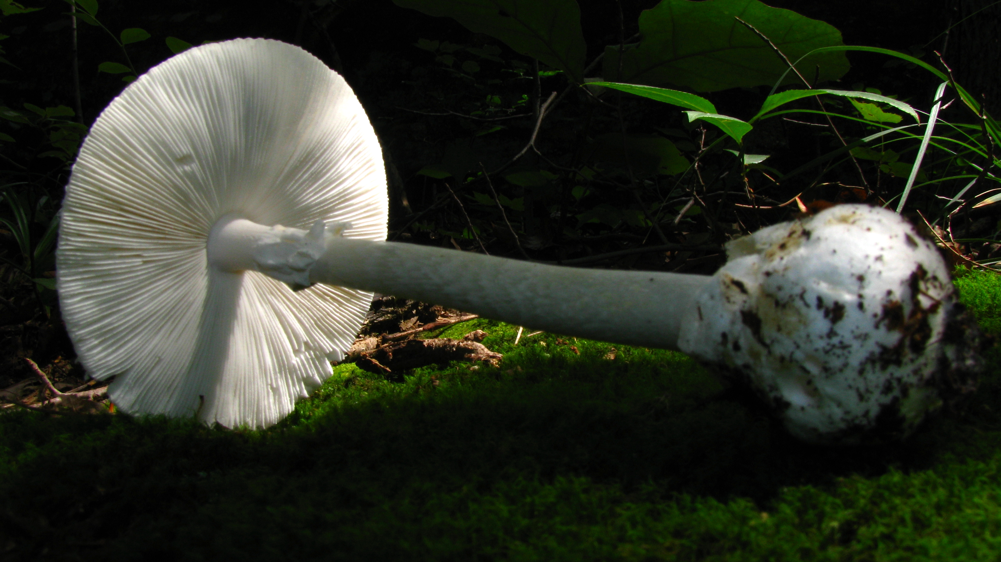 Amanita bisporigera G. F. Atk. Location: High Bottom Farm, Athens County, Ohio, USA. For more information about this, see the observation page at Mushroom Observer.